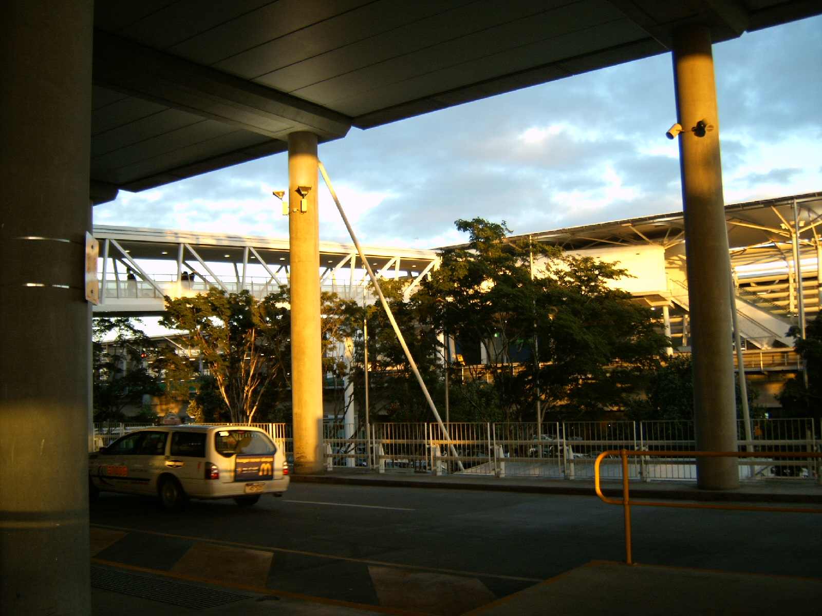 Gateway between Brisbane International Airport, International Terminal and Airtrain Station